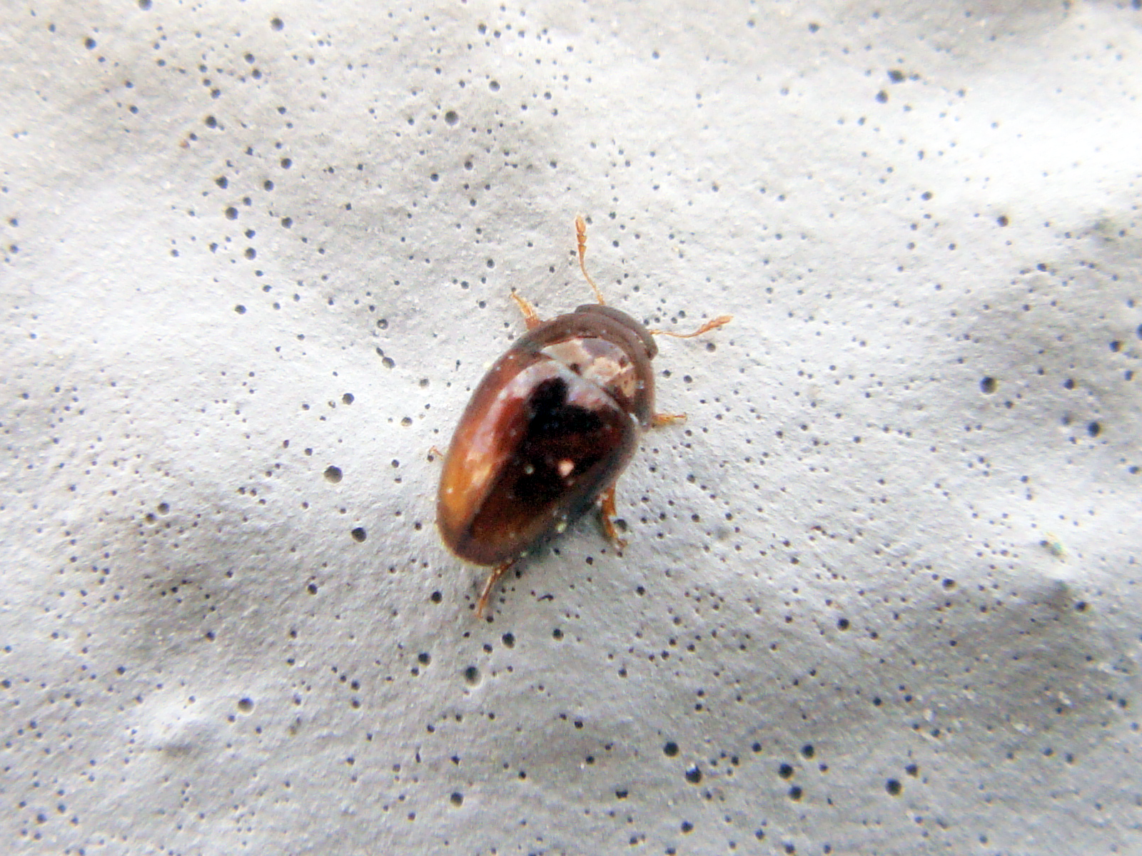 Stilbus testaceus in Ansião, Leiria, Portugal